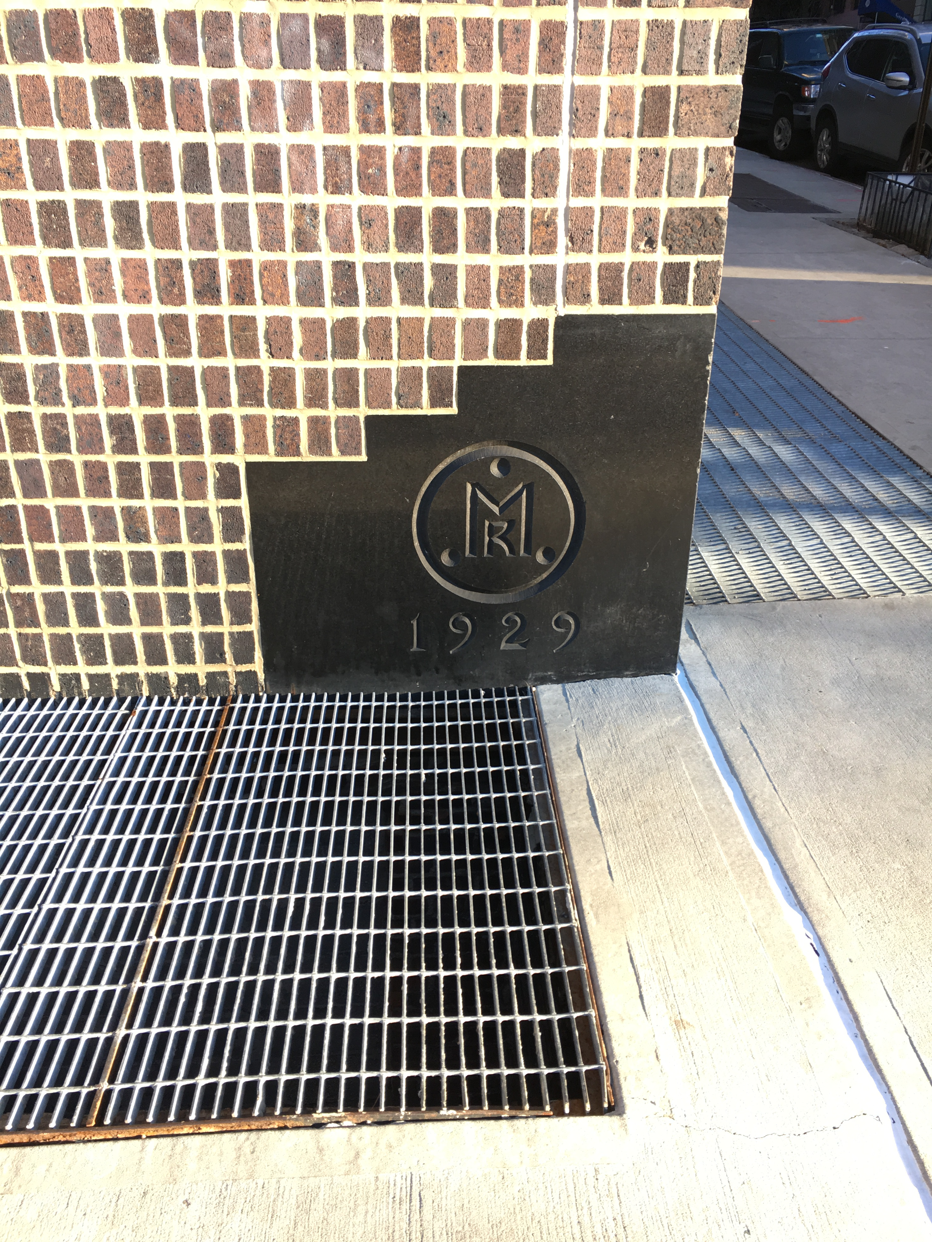 Master Apartments (bottom corner, logo and date engraved), 310 Riverside Drive, Upper West Side, Manhattan, New York